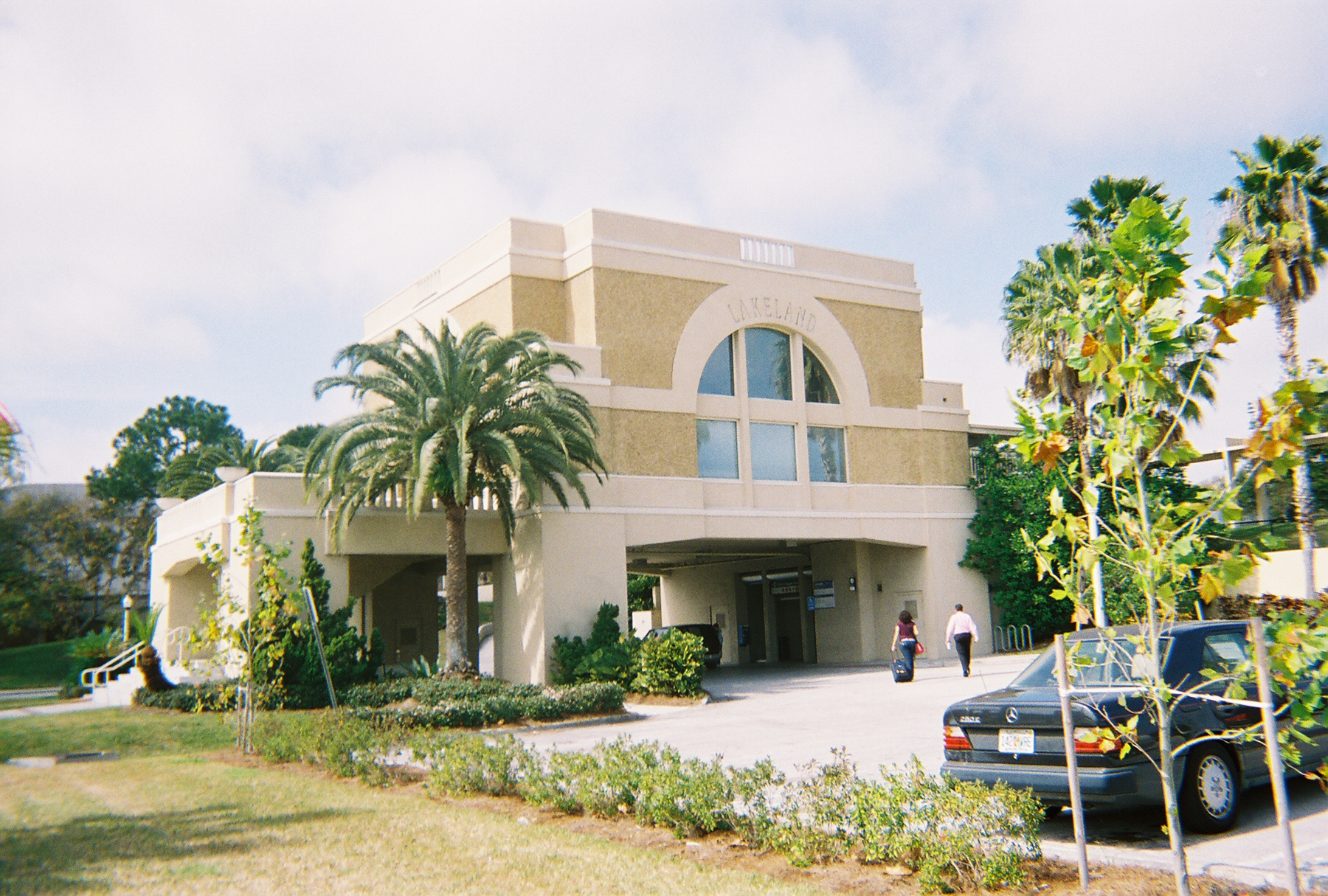 Image of the Lakeland (Amtrak station) from the parking lot and the tunnel beneath the station itself in Lakeland, Florida.